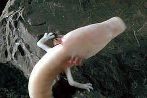 Olm (Proteus anguinus) - closeup of the head.